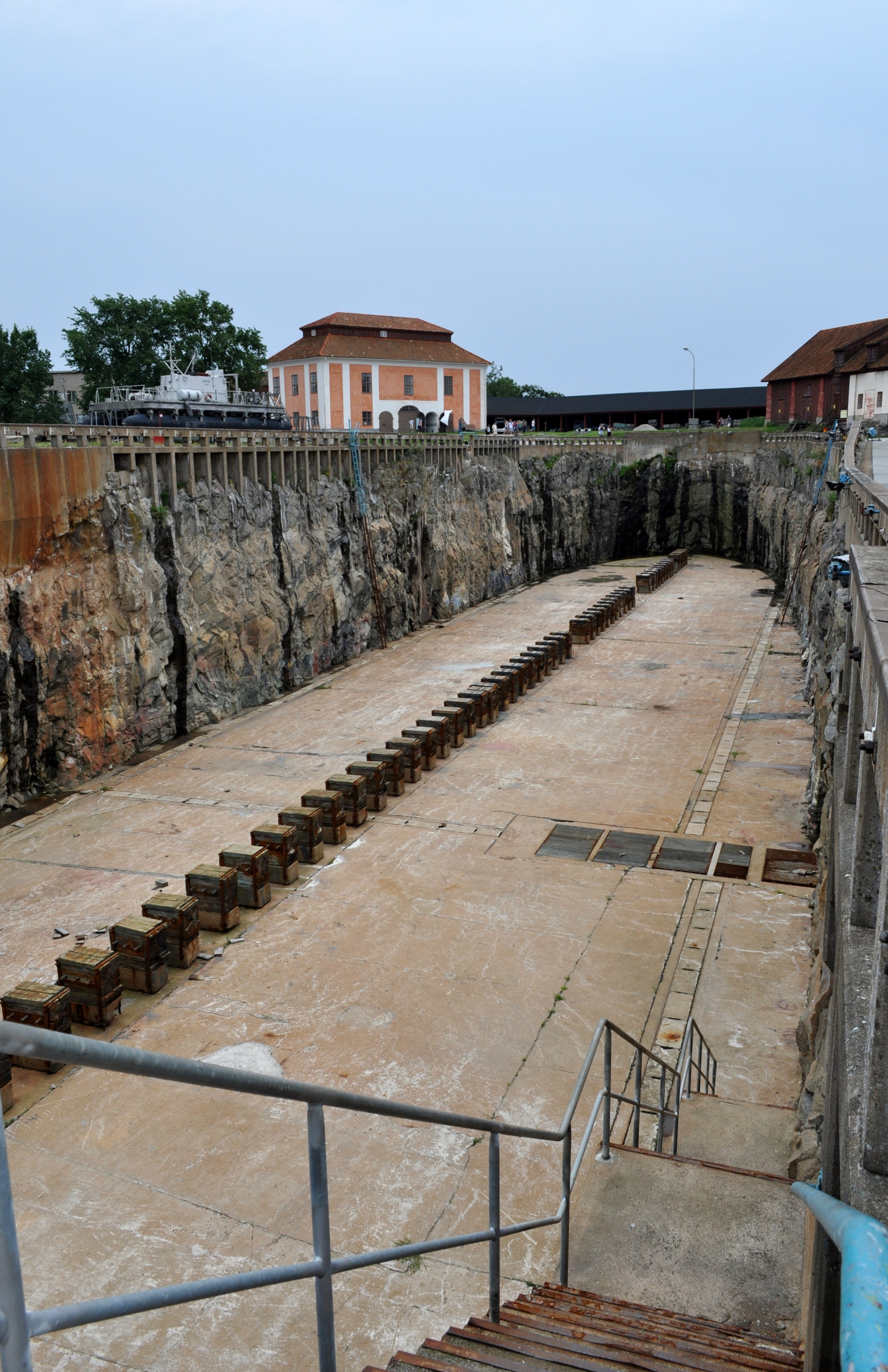 Old dock, Polhemsdockan on Karlskrona naval base.